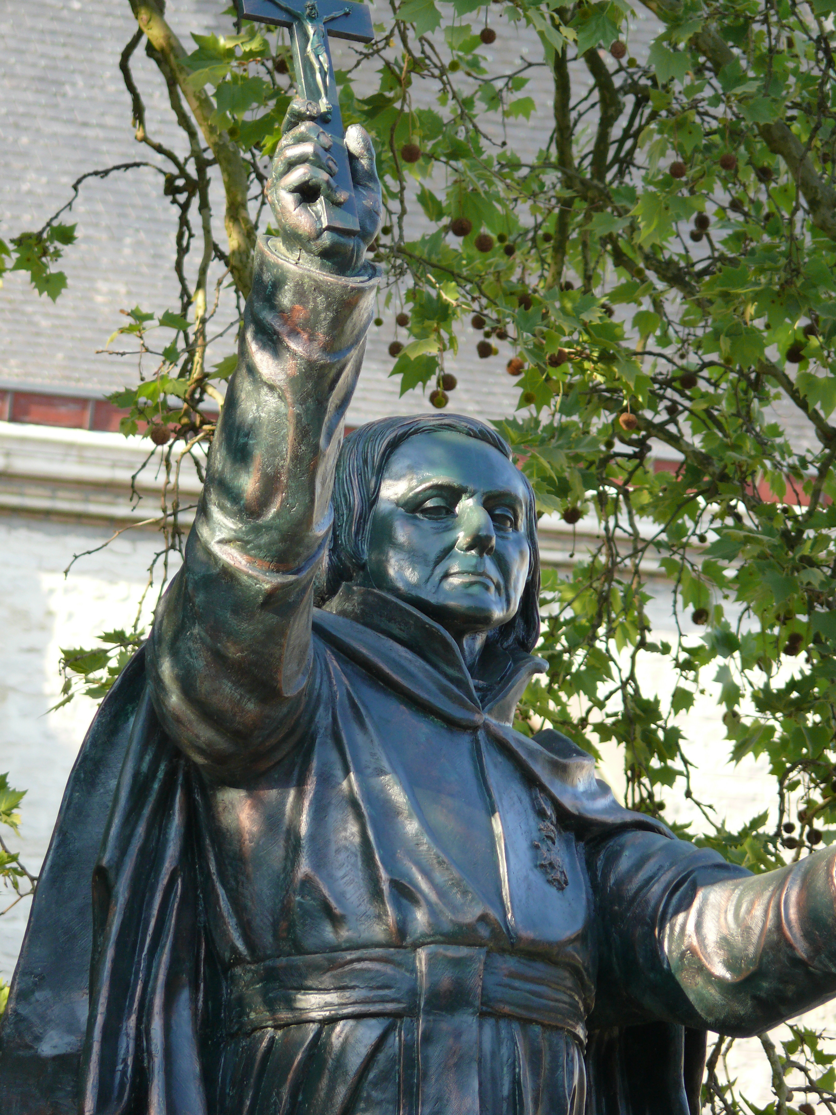 Statue of father Pieter-Jan De Smet s.j. in his hometown Dendermonde. The statue was made after a design of Charles Auguste Fraikin (Herentals 1817-Schaarbeek 1893) and was erected in 1879. In 1982 corrosion had destroyed the inner structure to such a degree that the statue fell off of its pedestal. The present statue is a faithful polyester copy of the original.